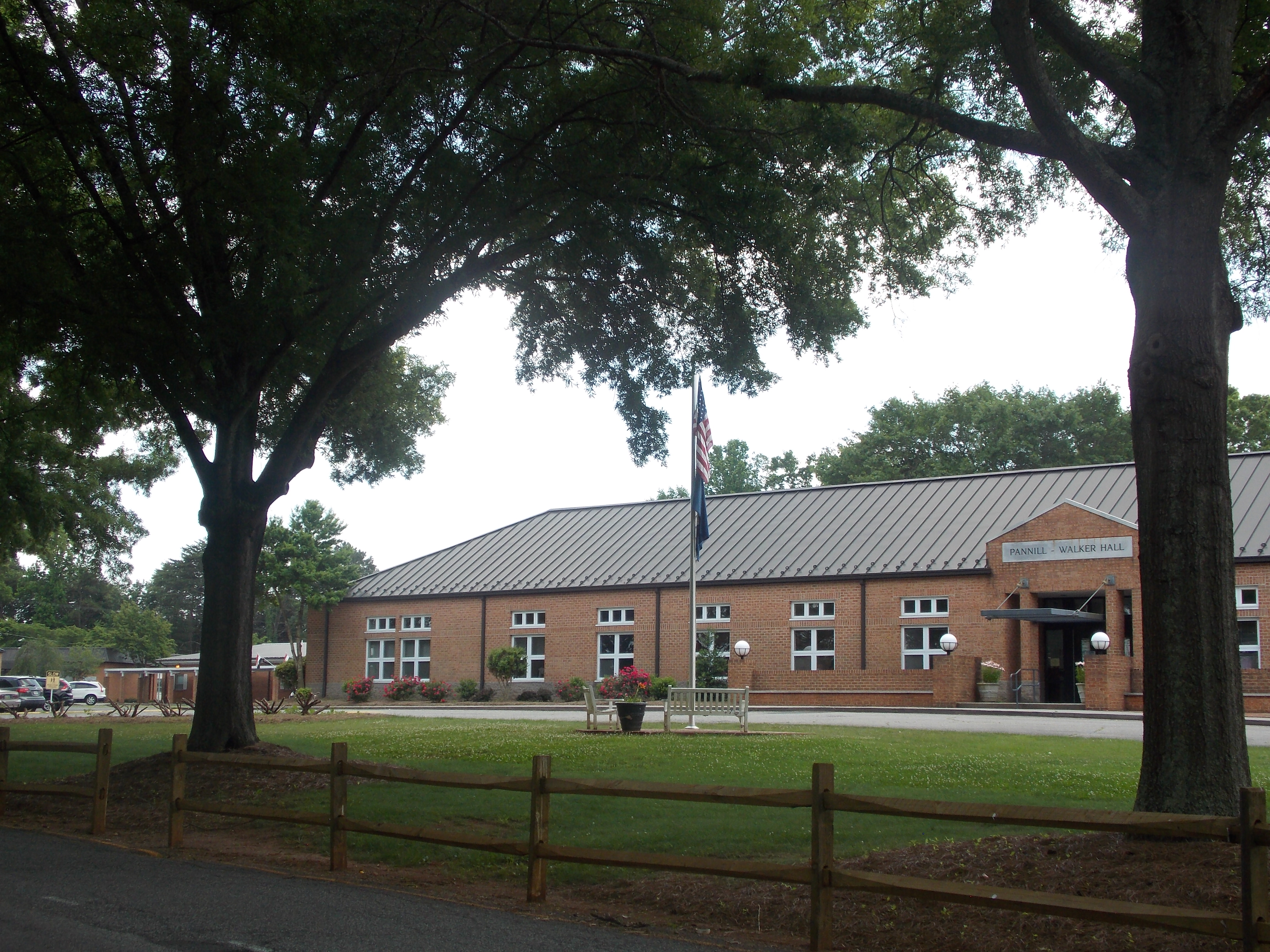 The campus of Carlisle School, located in Martinsville, Virginia, is comprised of buildings for the Lower, Middle, and Upper Schools, and a fine-arts building.